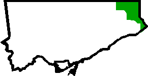 Locator map of Rouge in Toronto, Ontario, Canada. Based on locator maps created by user Alaney2k.